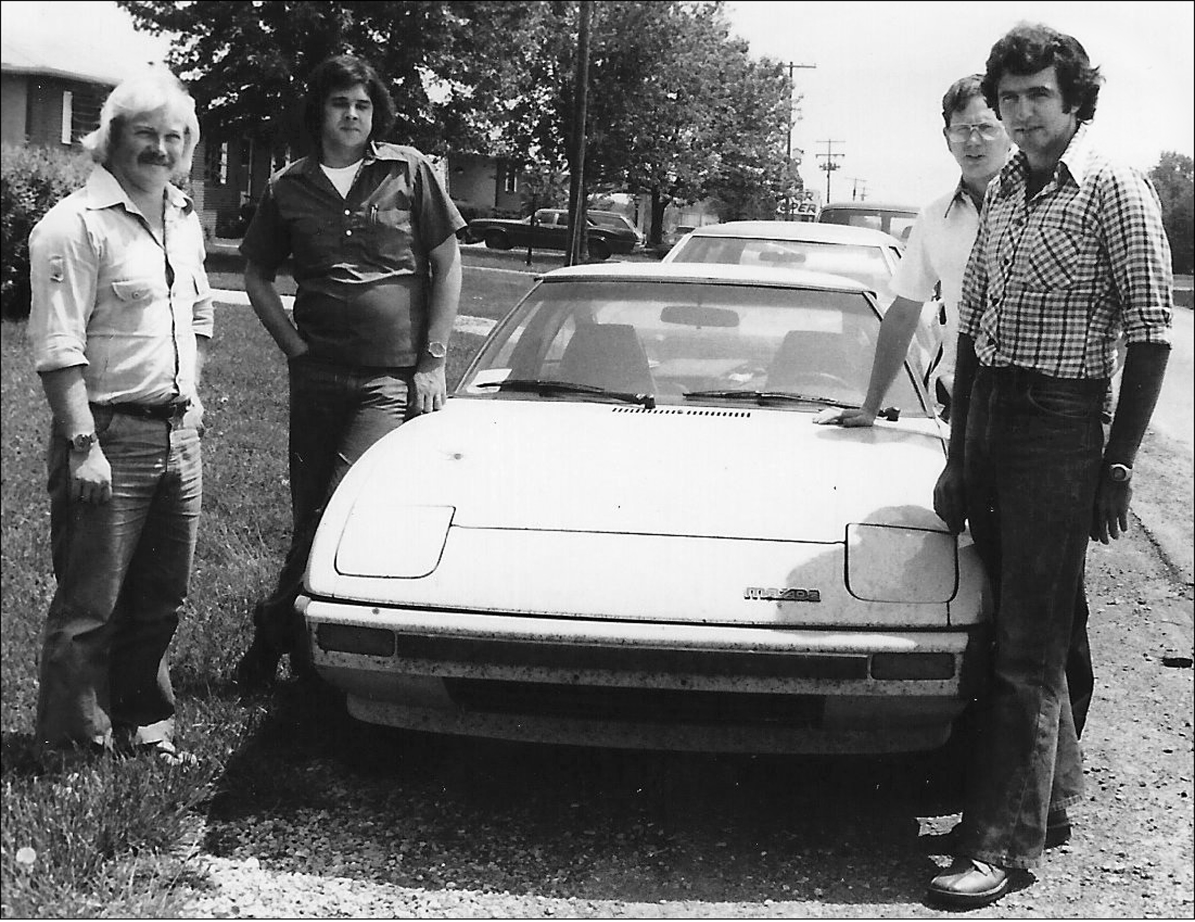 September 1978: New Zealanders Rod Millen (far R) and mechanic Murray Butt (far L) drove their just-on-the-market Mazda RX7 from California to Ohio to discuss SCCA ProRallying with officials from the Sunriser 400 Forest Rally: clerk of course Jerry Sproat (2nd L) and press officer Tim Shannon (3rd from L) at Shannon's house in Columbus. Millen went on to win the event the next year.